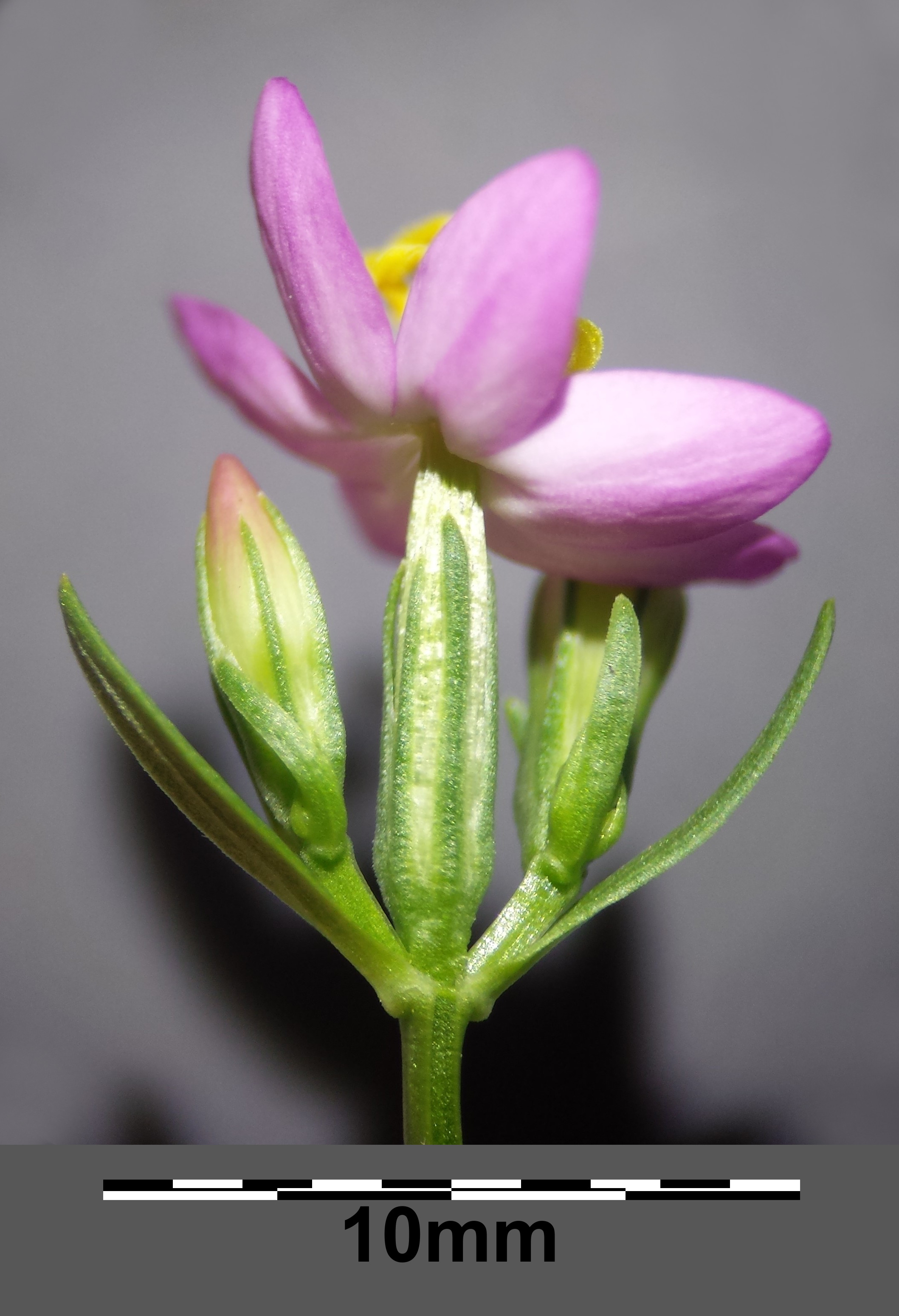 Inflorescence Taxonym: Centaurium erythraea (subsp. erythraea) ss Fischer et al. EfÖLS 2008 ISBN 978-3-85474-187-9 Location: Neue Donau, district Korneuburg, Lower Austria - ca. 160 m a.s.l. Habitat: dry meadows